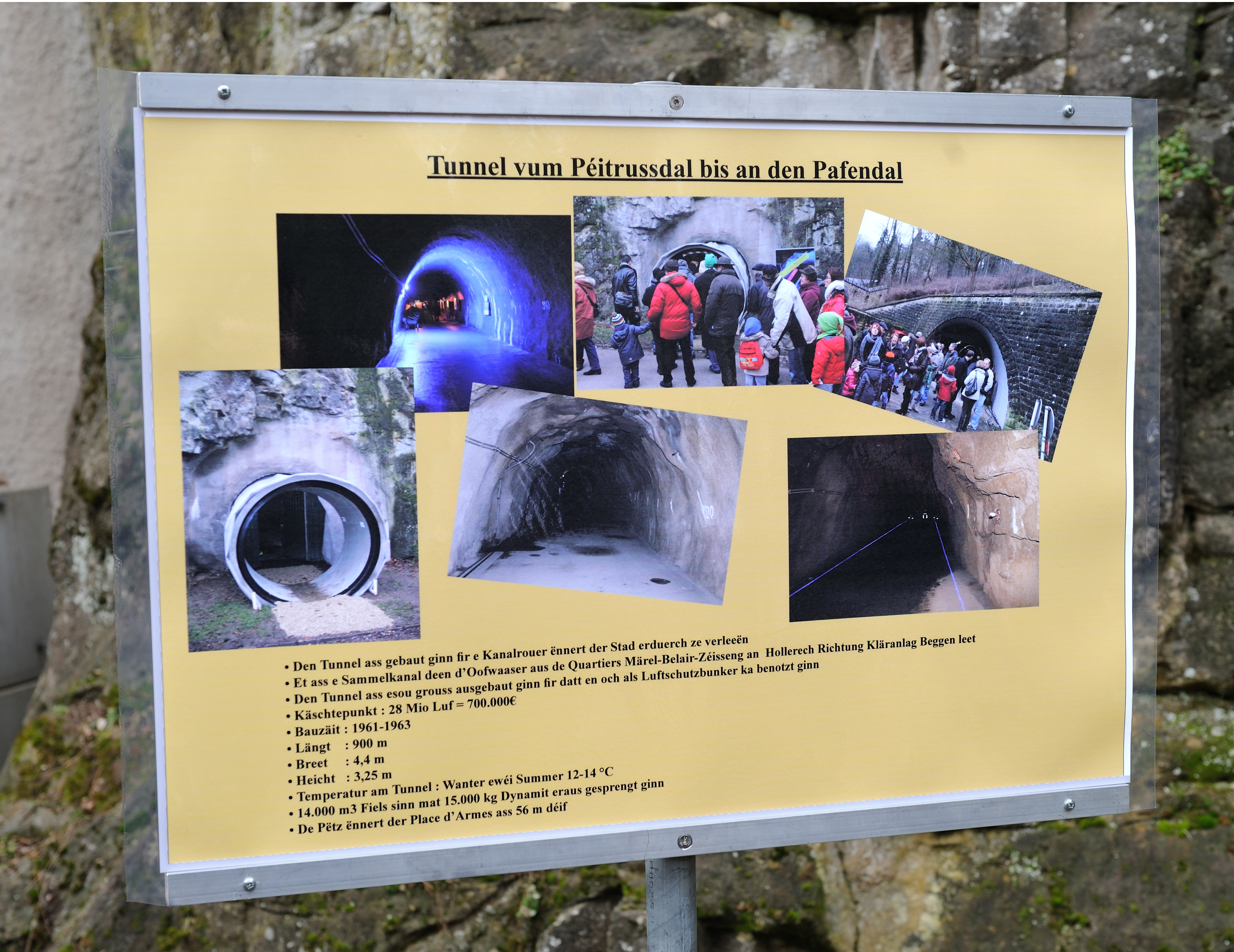 Luxembourg, Petrusse valley: Infopanel at the occasion of the exposition called 'Aquatunnel' organized in the tunnel running through the rock under the city centre from the Petrusse valley to the Alzette valley in Luxembourg-Pfaffenthal. The text is in Louxembourgish.